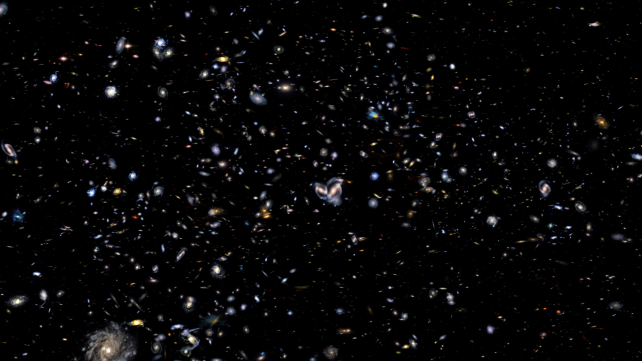 This dominant cosmological theory suggests the Universe began nearly 13.7 billion years ago, expanding rapidly from a very dense and incredibly hot state. Eventually, stars ignited and galaxies slowly formed. The Big Bang theory has been imporved and advanced especially through NASA's Cosmic Background Explorer (COBE) and WMAP missions. This animation conceptualizes these explosive beginnings of the Universe.